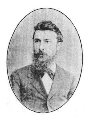 Jakov Tikhai